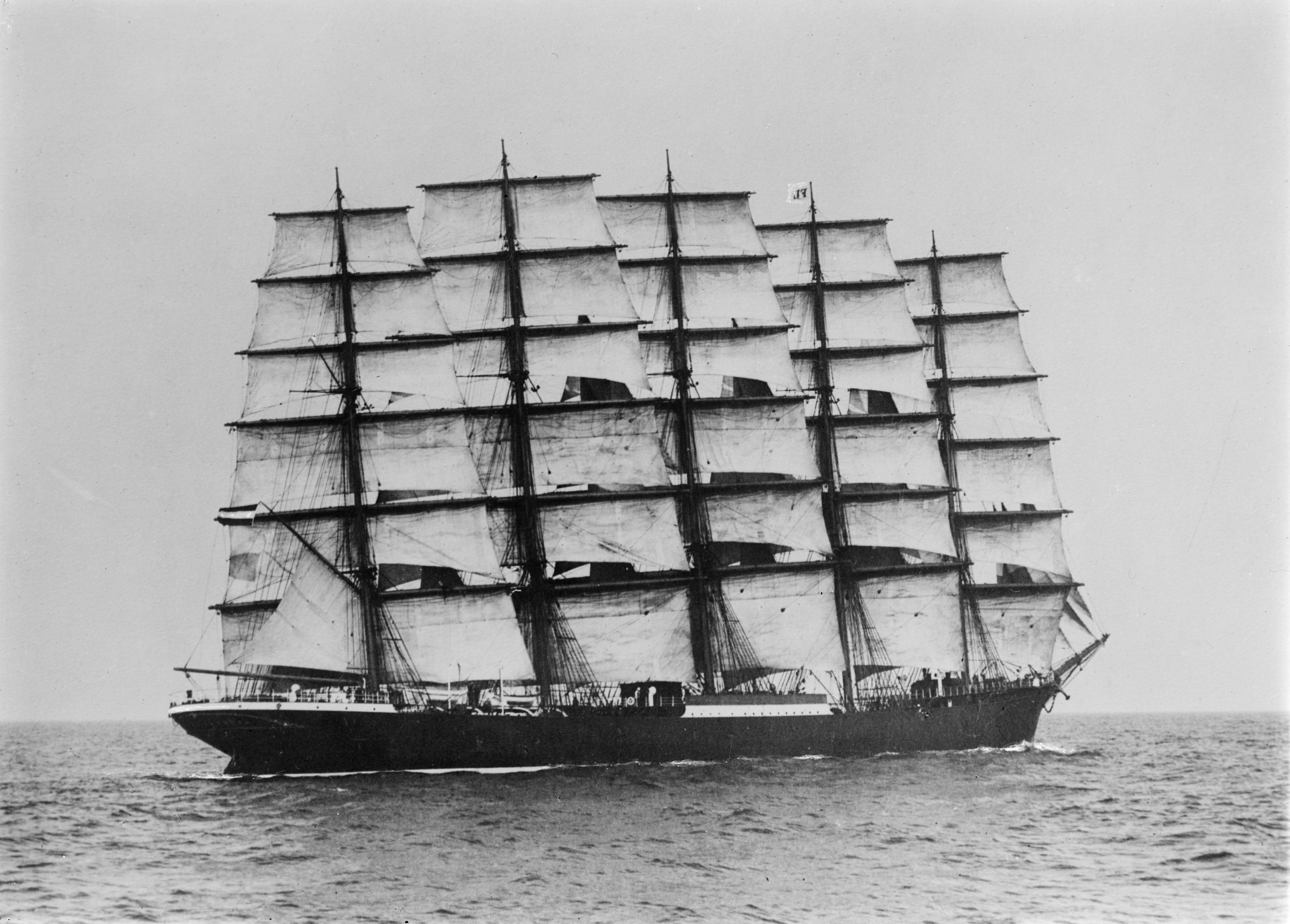 The German five-masted full-rigged ship „Preussen“ under full sails leaving New York Harbour.